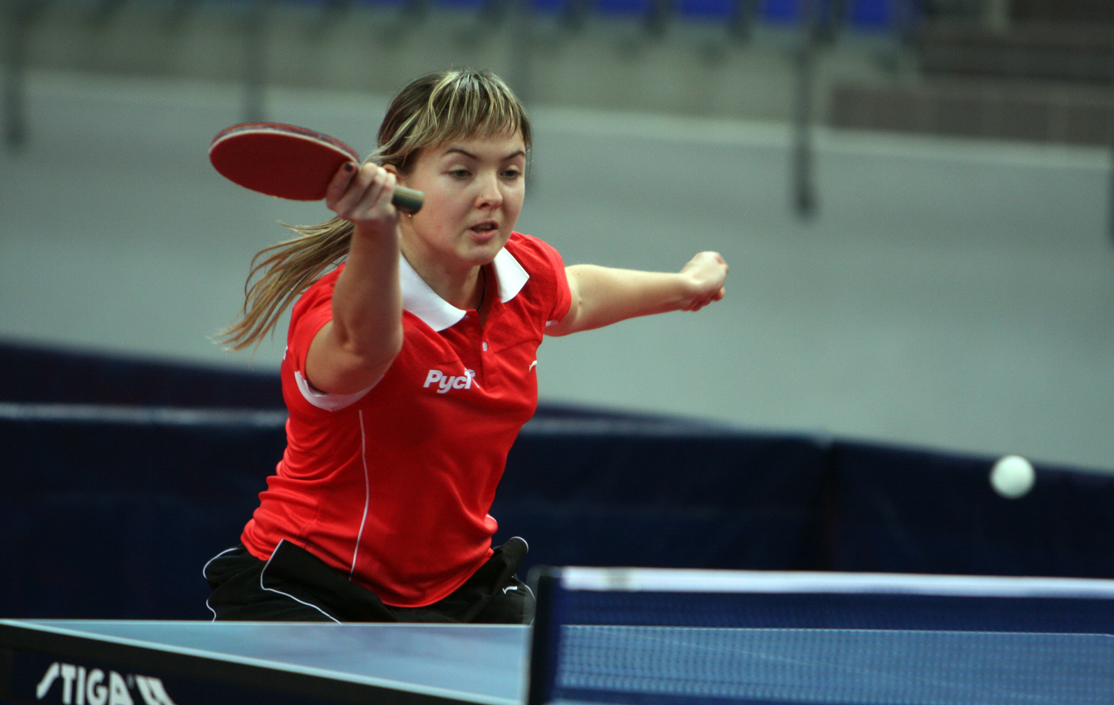 Anna Tikhomirova in 2009